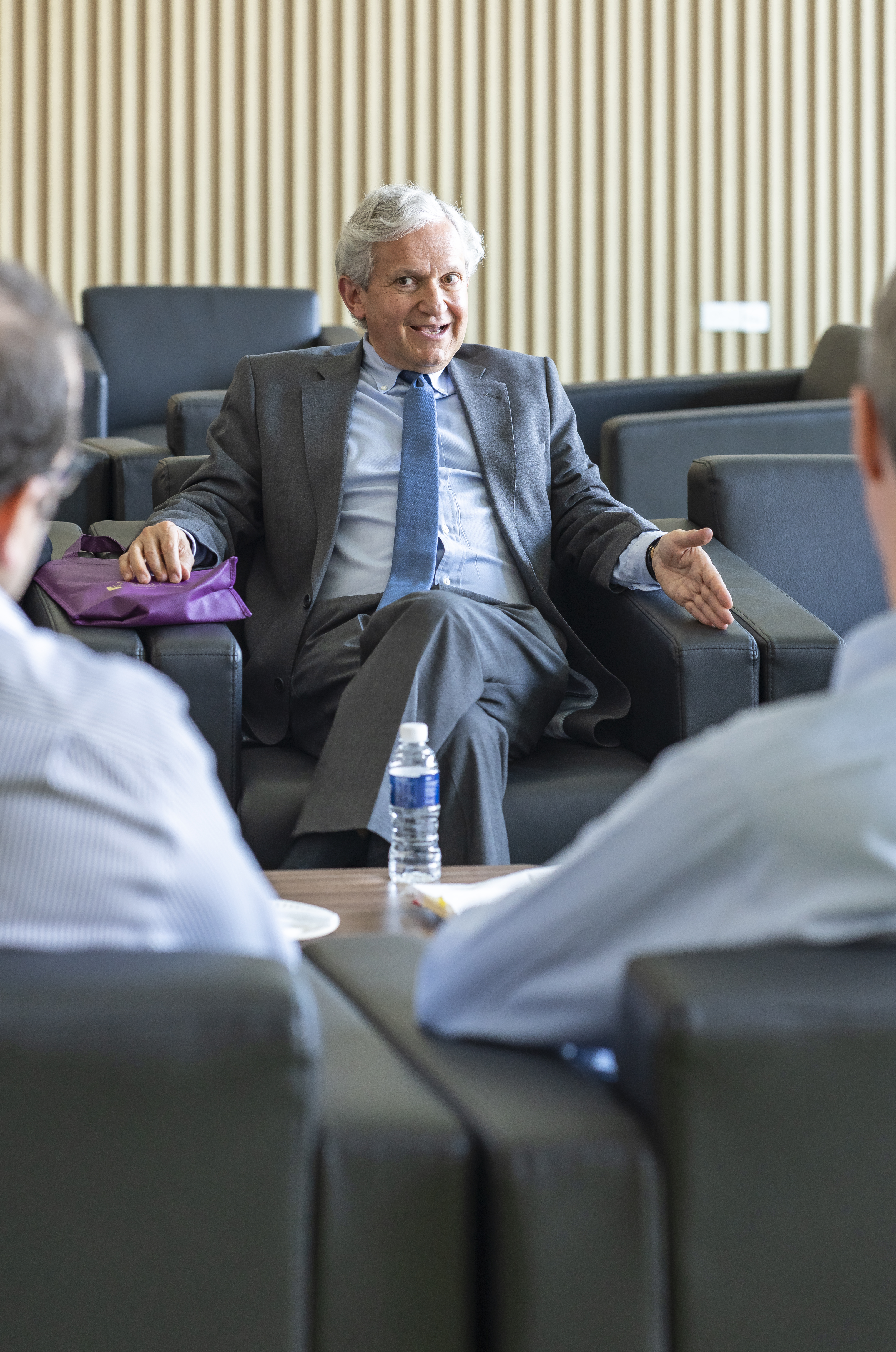 Sir Geoffrey Charles Vos speaking at Singapore Management University in 2018